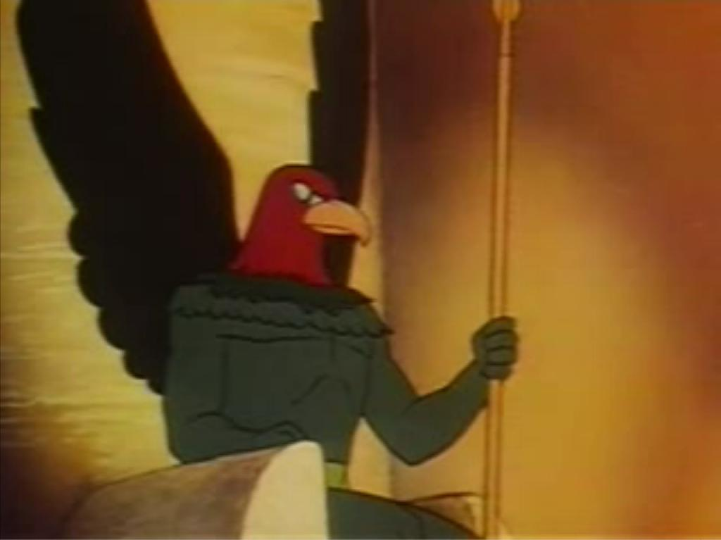 A still from the animated short The Underground World.